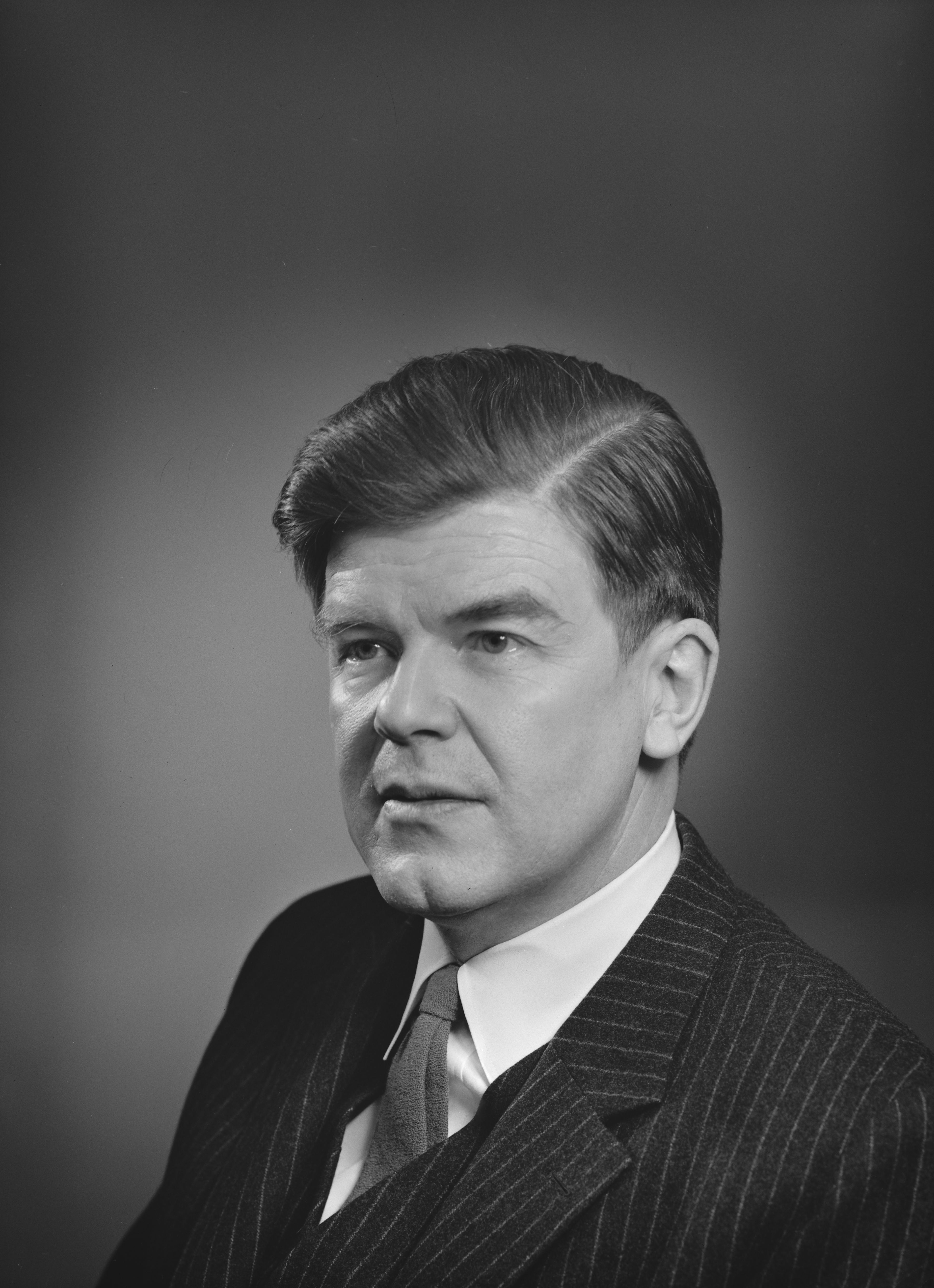 Photograph of the Finnish politician Victor Procopé (1918–1998).